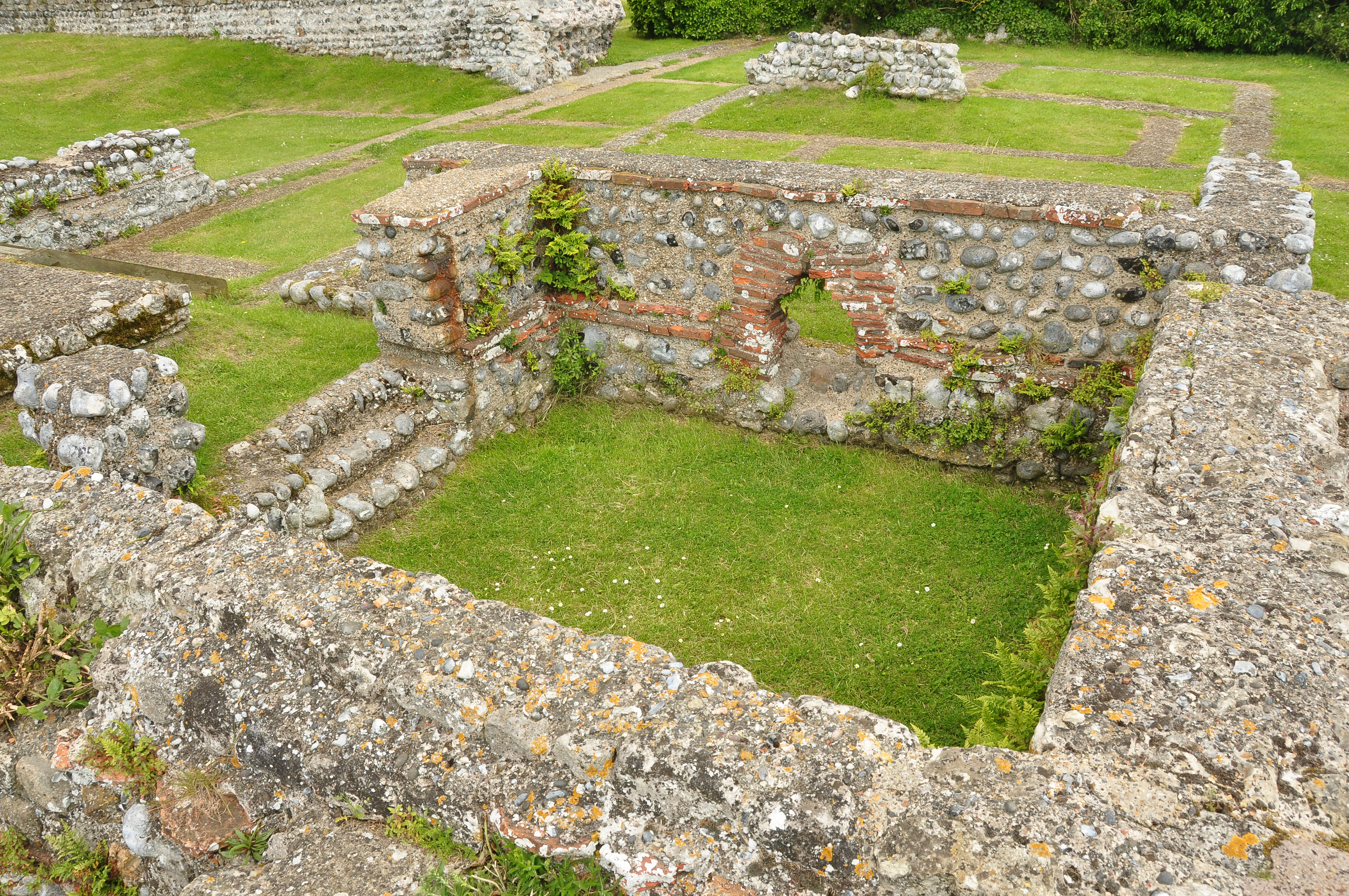 Buildings in Richborough Castle, Kent.